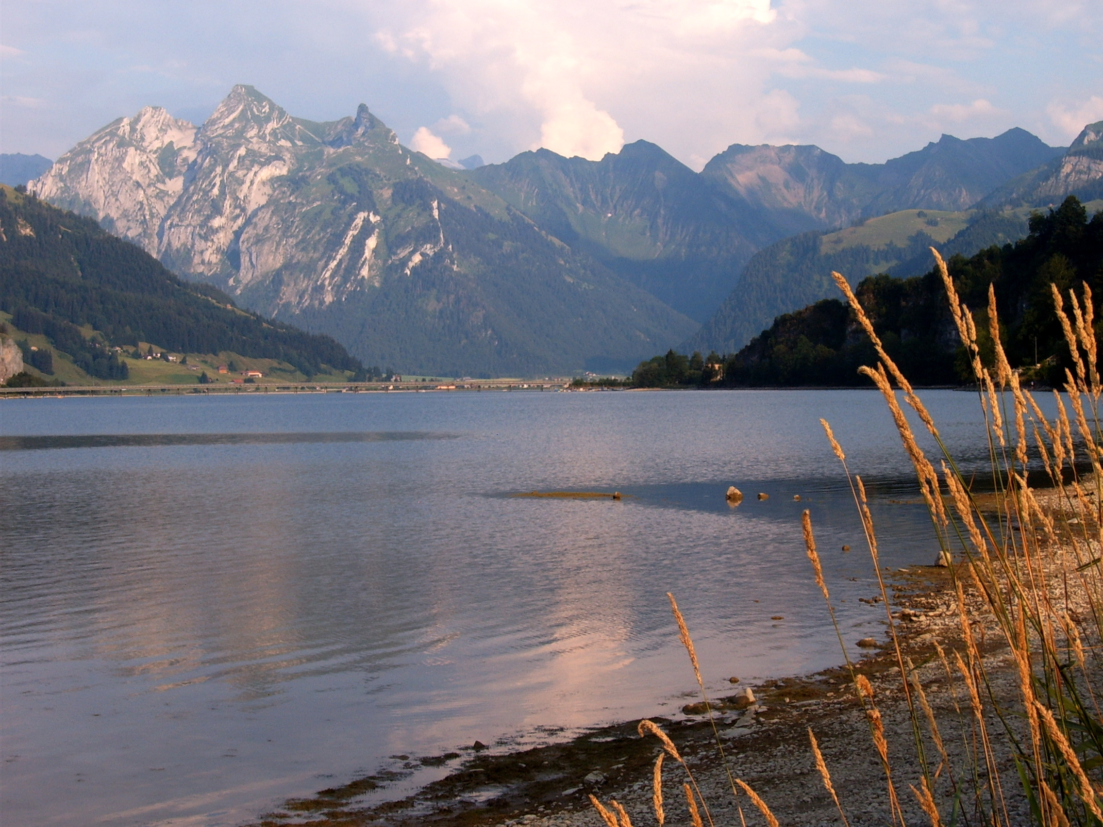 Sihlsee with Steinbach-Ruestel viaduct and Fluebrig, Canton of Schwyz, Switzerland